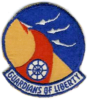 Emblem of the 773d Radar Squadron